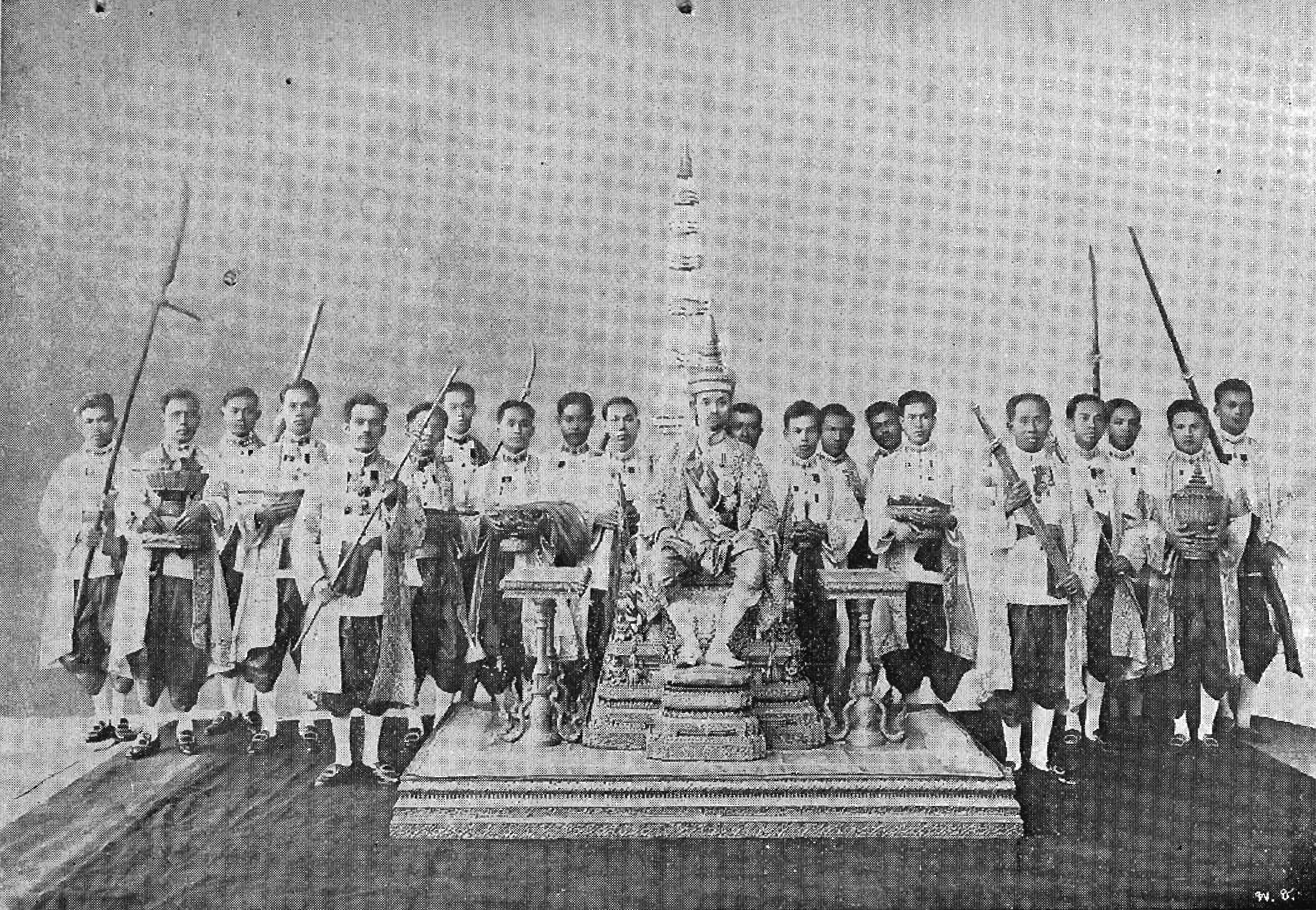 King Prajadhipok of Siam wears full traditional monarchical attire in his coronation. He sits on the Phatthrabit Throne (พระที่นั่งภัทรบิฐ) inside the Phaisan Thaksin Hall (พระที่นั่งไพศาลทักษิณ), and is surrounded by the court officers carrying his regalia and supplementary insignia, including the Eight Weapons (พระแสงอัษฎาวุธ).